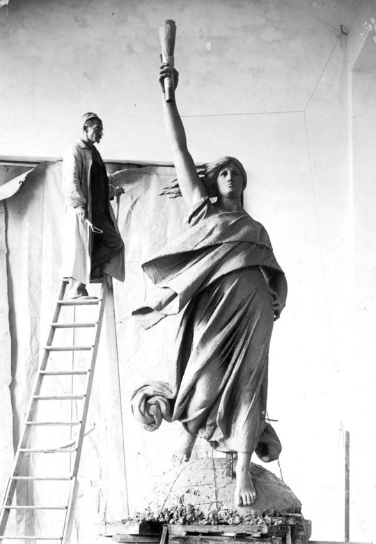 The sculptor Stephan Sinding during the work on the sculpture Elektra for the headquarters of the Great Northern Telephone Company (Store Nordiske Telegrafbygnings) on Kongens Nytorv in Copenhagen, Denmark. The building was inaugurated in 1893.